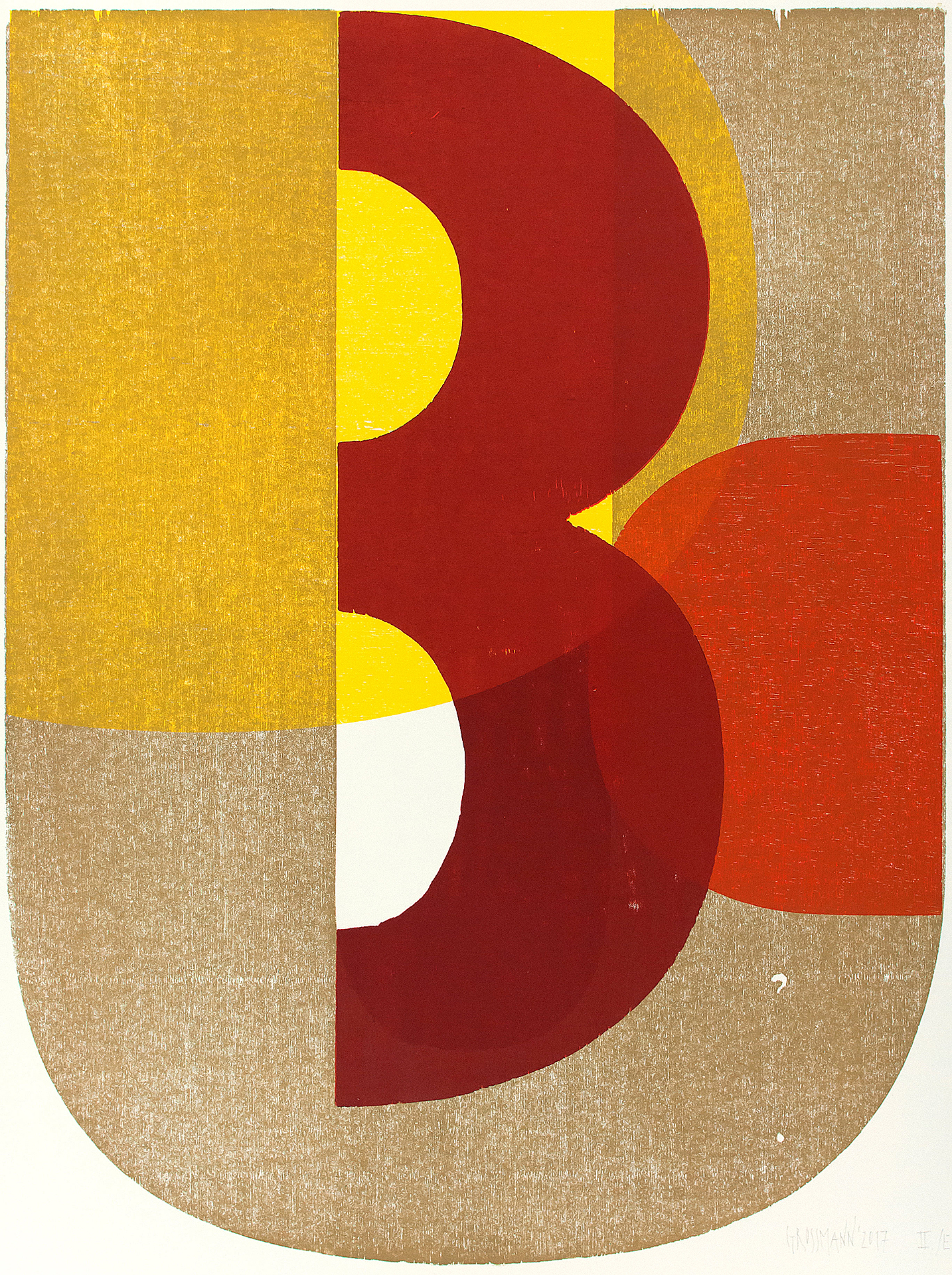 Wood Cut on Handmade Paper